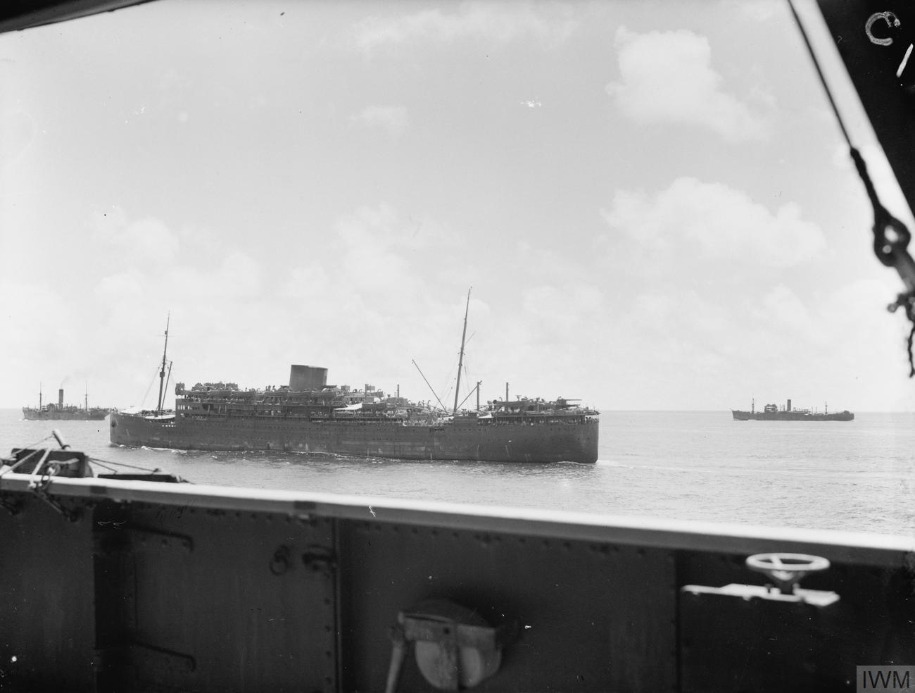 Imperial War Museum title: In convoy from Bombay Singapore. February 1942, on board the troopship Devonshire during passage from Bombay to Singapore and Batavia (Djakarta) and return, in what was probably the last convoy to reach Singapore with troops and stores. Apart from one air raid by Japanese planes while passing through the Bangka Strait, the journey was uneventful. Imperial War Museum photo description: Convoy bound for Batavia and Singapore. Nearest camera is SS Warwick Castle with troops aboard. Per Harold Atcherley, the Warwick Castle was transporting elements of the 18th Infantry Division. Atcherley, Harold (2012) Prisoner of Japan: A Personal War Diary - Singapore, Siam and Burma 1941–1945, Cirencester, Gloucestershire: Memoirs Publishing ISBN: 978-1-90930-453-6.